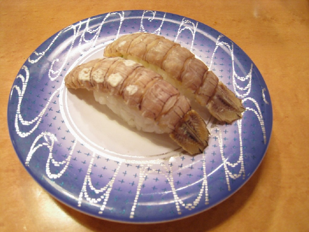 Nigiri-zushi of Oratosquilla oratoria (シャコ shako)